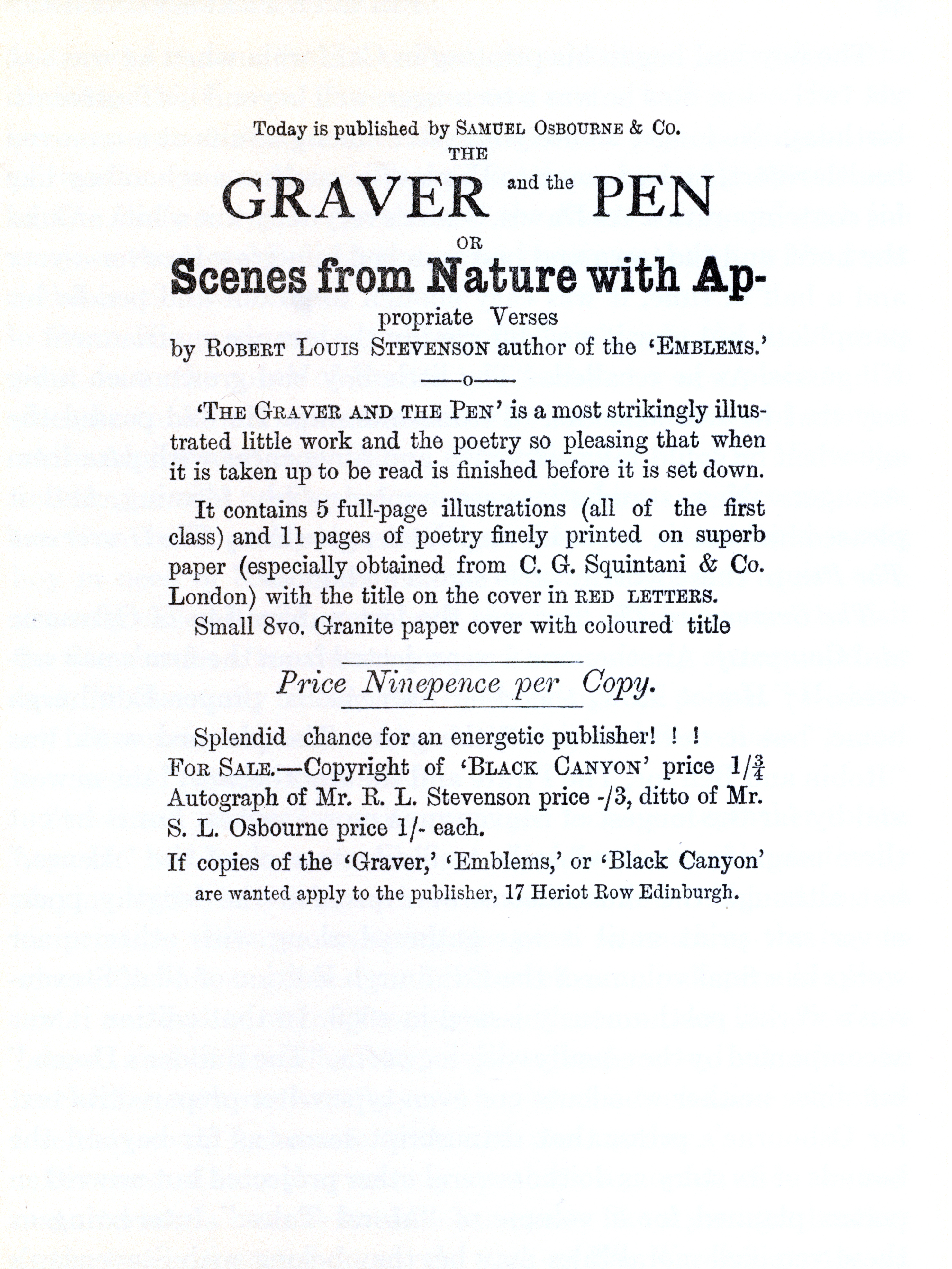 Advertisement for The Graver and the Pen, a book of verses and illustrations written and engraved by Robert Louis Stevenson and published in Kingussie by Samuel Lloyd Osbourne.